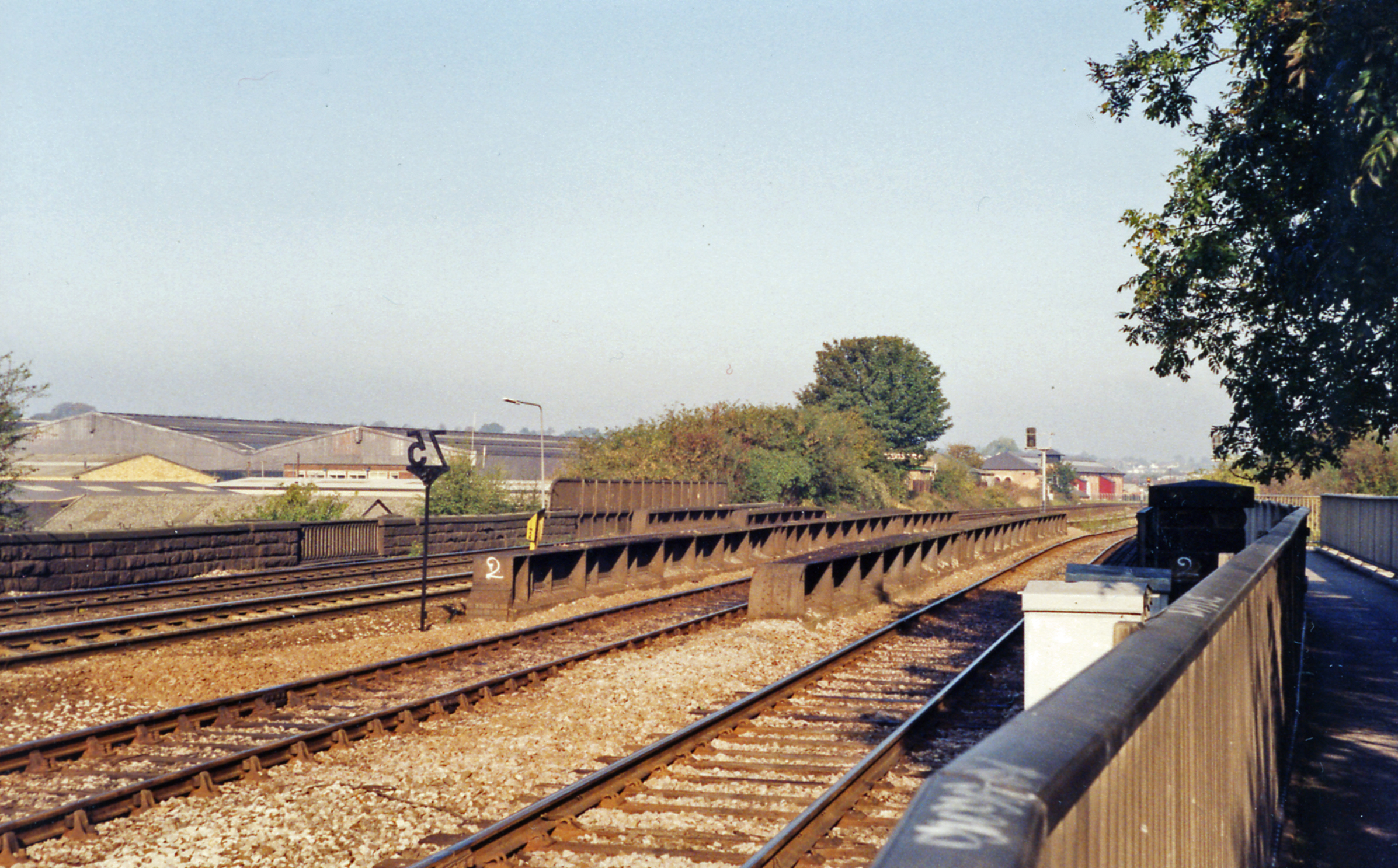 Site of Derby Nottingham Road station, 1991 View northward, towards Ambergate, Matlock (Buxton and Manchester until 3/67), Chesterfield etc.: ex-Midland main lines from Derby and the South. The station was closed 6/3/67.